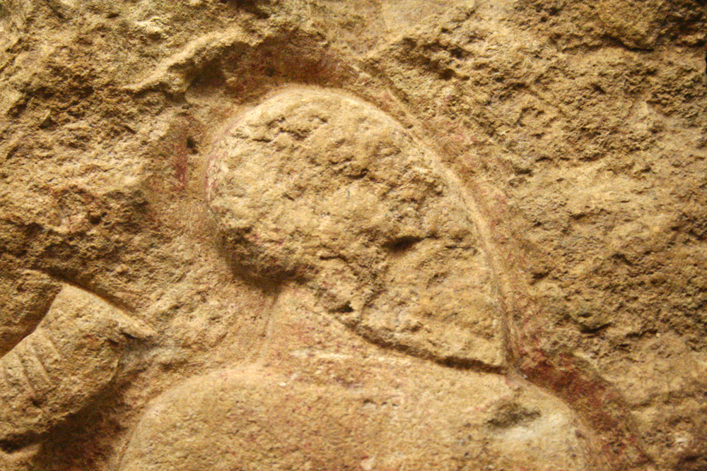 detail of the Venus of Laussel, picture of the original kept in Bordeaux museum, France